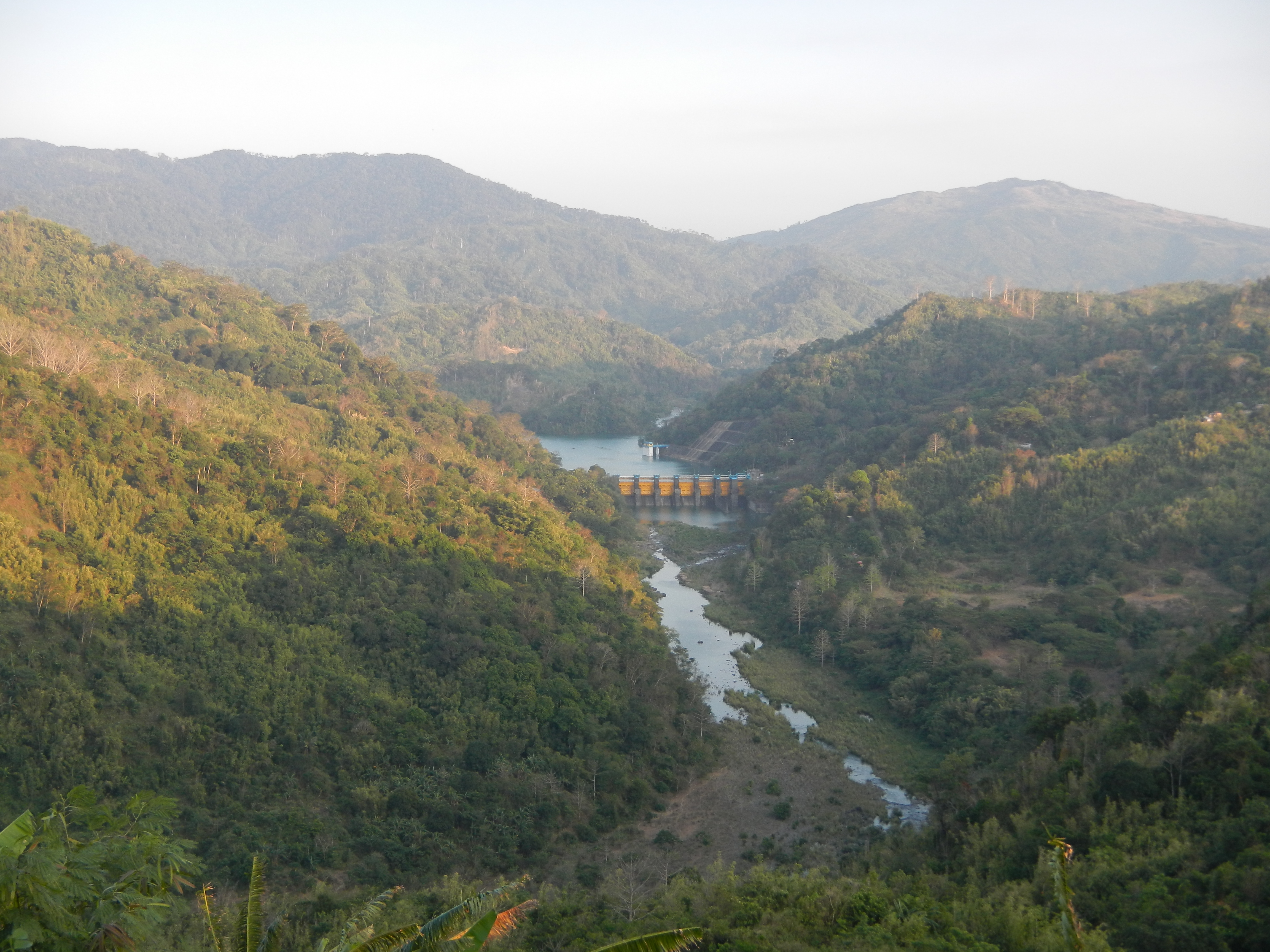 Ipo dam, Angat Rainforest and Ecological Park, Bit-Bit River-Bit-Bit Bridge in Barangay San Mateo beside San Lorenzo (Hilltop), Angat Reservoir and Hydroelectric Power Plant surrounded by lush greens, Angat Lake from Bigte, Norzagaray, Bulacan, Bulacan province (along the Bigte-San Mateo, Norzagaray, Bulacan Farm to Market Provincial Road interconnecting with the San Mateo-San Lorenzo, Norzagaray, Bulacan Farm to Market Road; connected by the Bit-Bit, River-Bit-Bit Bridge 14° 53.984N 121° 08.428E to the Angat Rainforest and Ecological Park, AREP, Watershed Management Department, Sitio Bitbit, Angat Watershed Area Team, by Presidential Proclamation Nos. 505 and 599 under the National Power Corporation, Exective Order No. 224, beside the Headquarters Alpha (AGGRESSOR) Company 48th Infantry Guardians BN, 7th Infantry Division, Philippine Army, Headquarters 3rd Platoon, 1st BUCAA Company, Charlie Company 70 IB (CAFGU) 7ID, PA, Sitio Suha Patrol Base, Detachment, from and along the General Alejo G. Santos Highway (Angat-Norzagaray, Bulacan section) interconnecting with and from the Norzagaray, Bulacan Welcome arch located in Barangay Minuyan I, Sapang Palay, City of San Jose del Monte, along Quirino Highway).